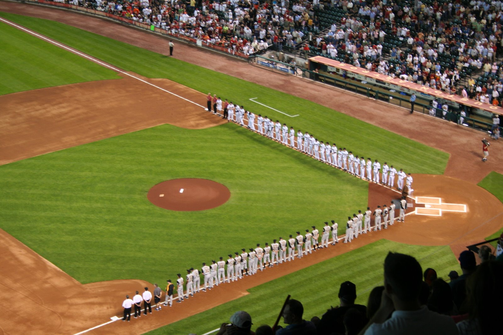 I took this picture on April 2, 2007 at Minute Maid Park. 18:33, 3 April 2007 . . Blwarren713 . . 1600×1067 (301 KB)